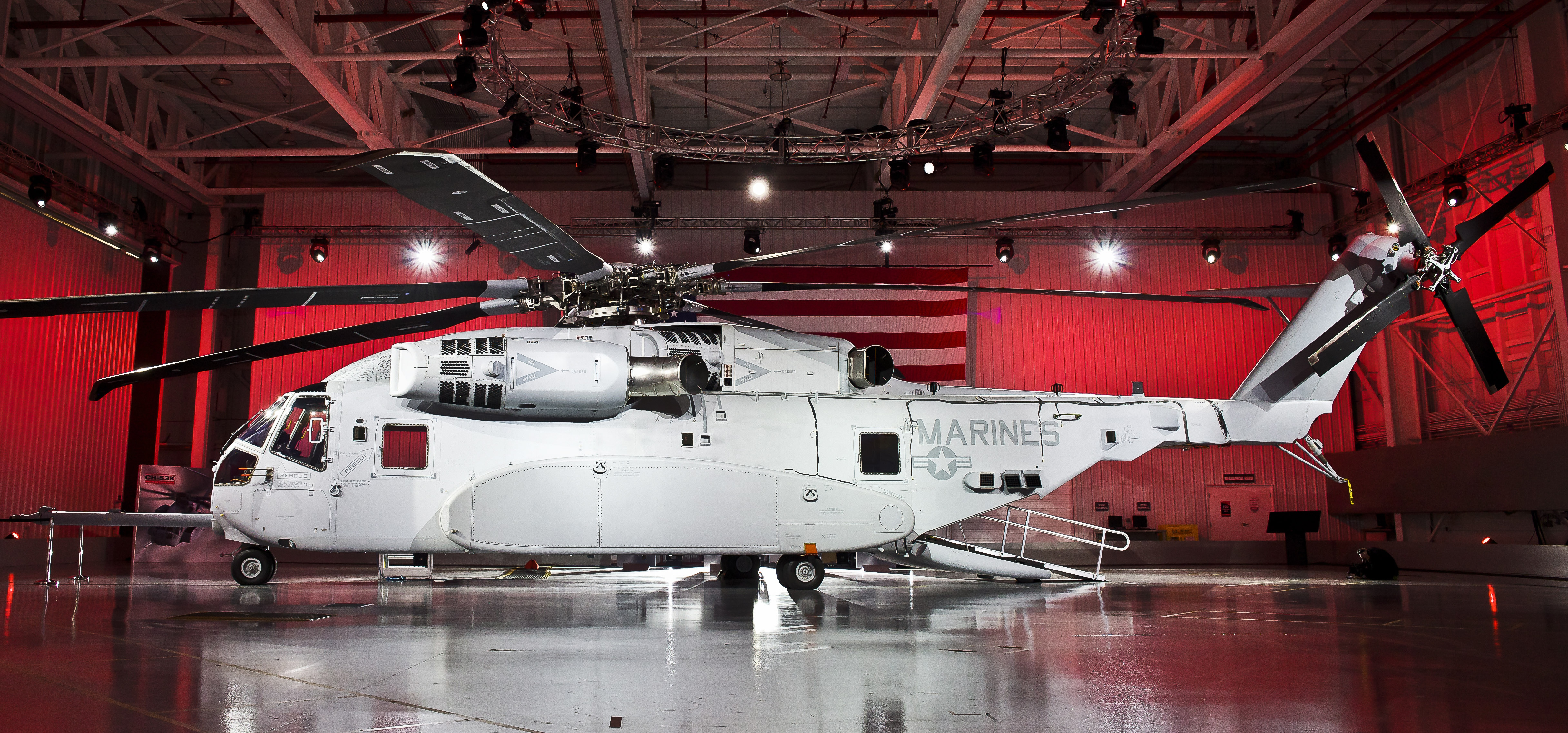 The Sikorsky CH-53K King Stallion helicopter is revealed during the rollout ceremony at the Sikorsky headquarters in Jupiter, Florida (USA), on 5 May 2014.